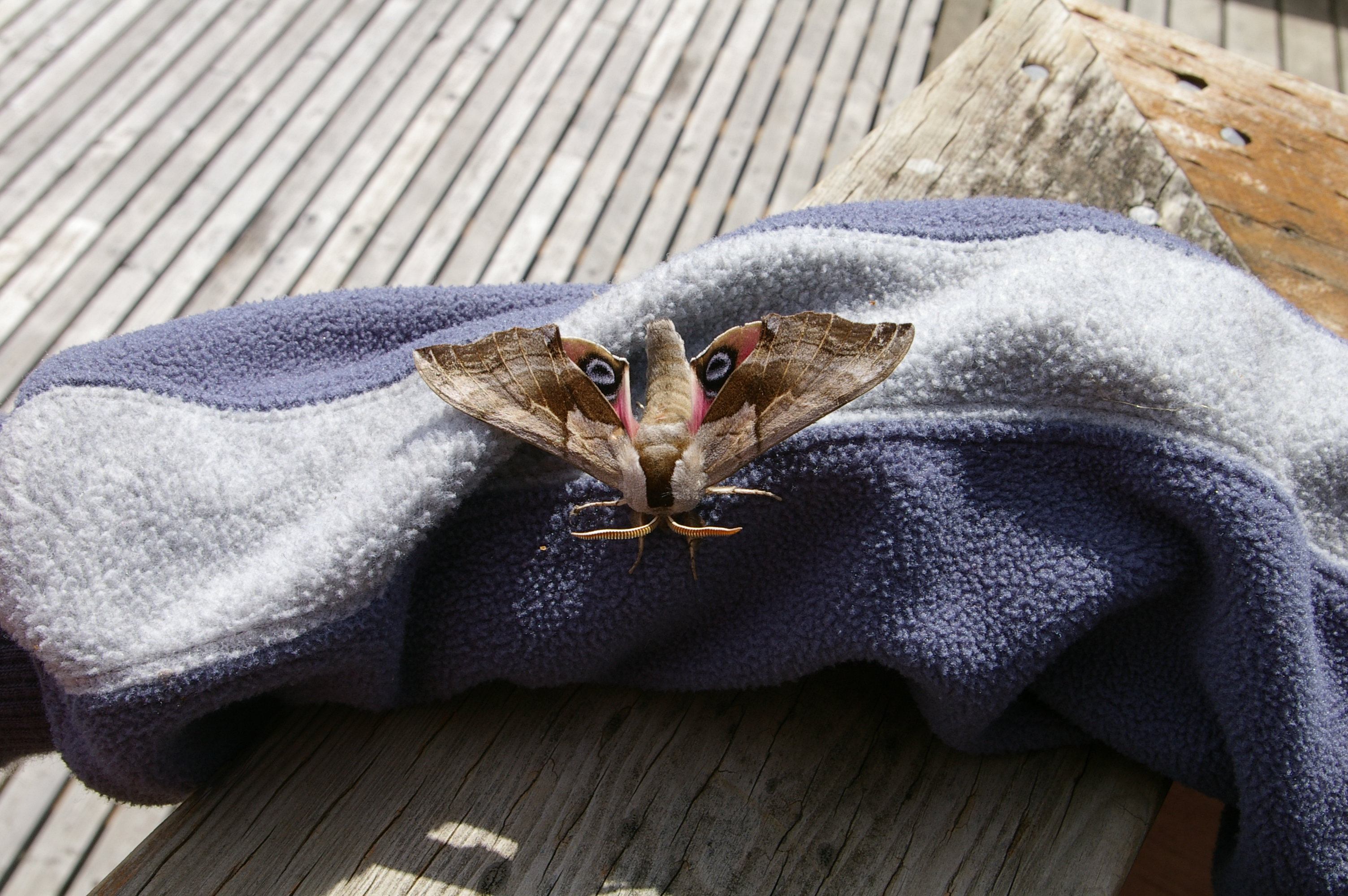 A Smerinthus cerisyi moth found in Friday Harbor, WA